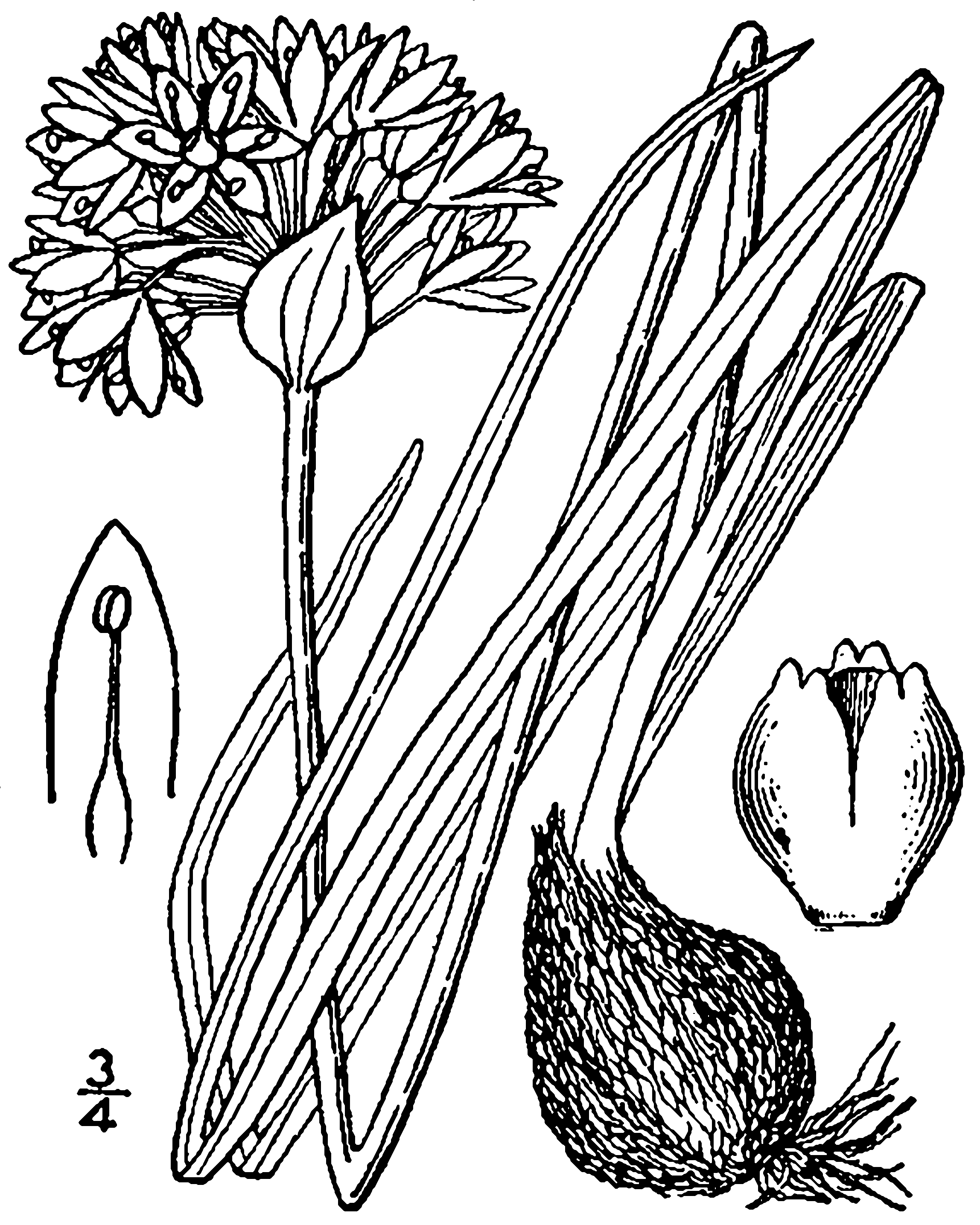 Textile Onion. Family Alliaceae. Drawing.